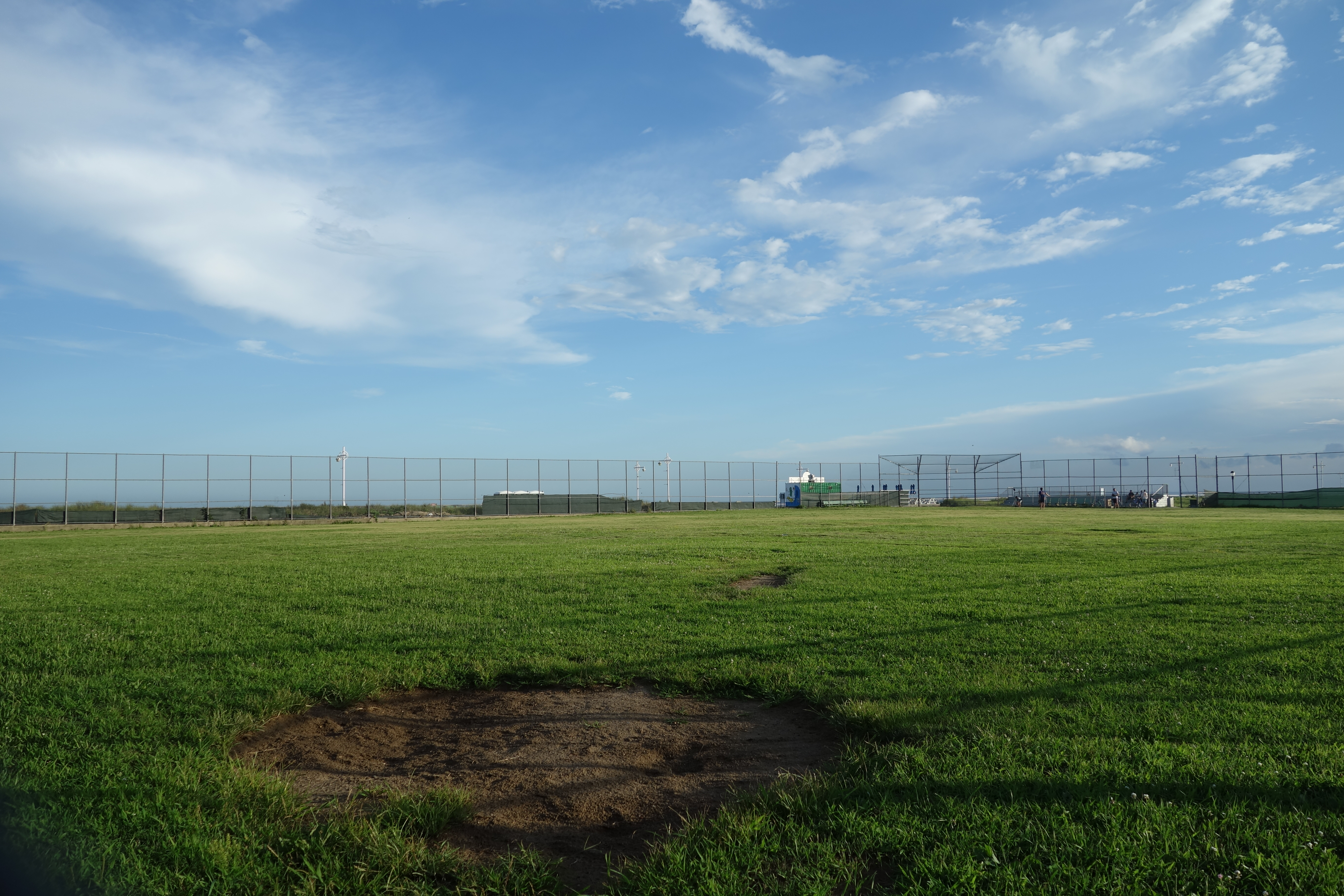 The two baseball diamonds adjacent to Neponsit Beach Hospital at the east end of Jacob Riis Park, on Rockaway Beach Boulevard at the roundabout in Rockaway, Queens. The land was originally part of the hospital property, but was ceded back to the park in 1959 and the two baseball fields were constructed under the watch of Robert Moses. The beach in front of the hospital was also ceded back to the park. Note that the grass on the field has been allowed to grow out, with the entire infield save for home plate and the pitchers mound covered in grass. Sad.